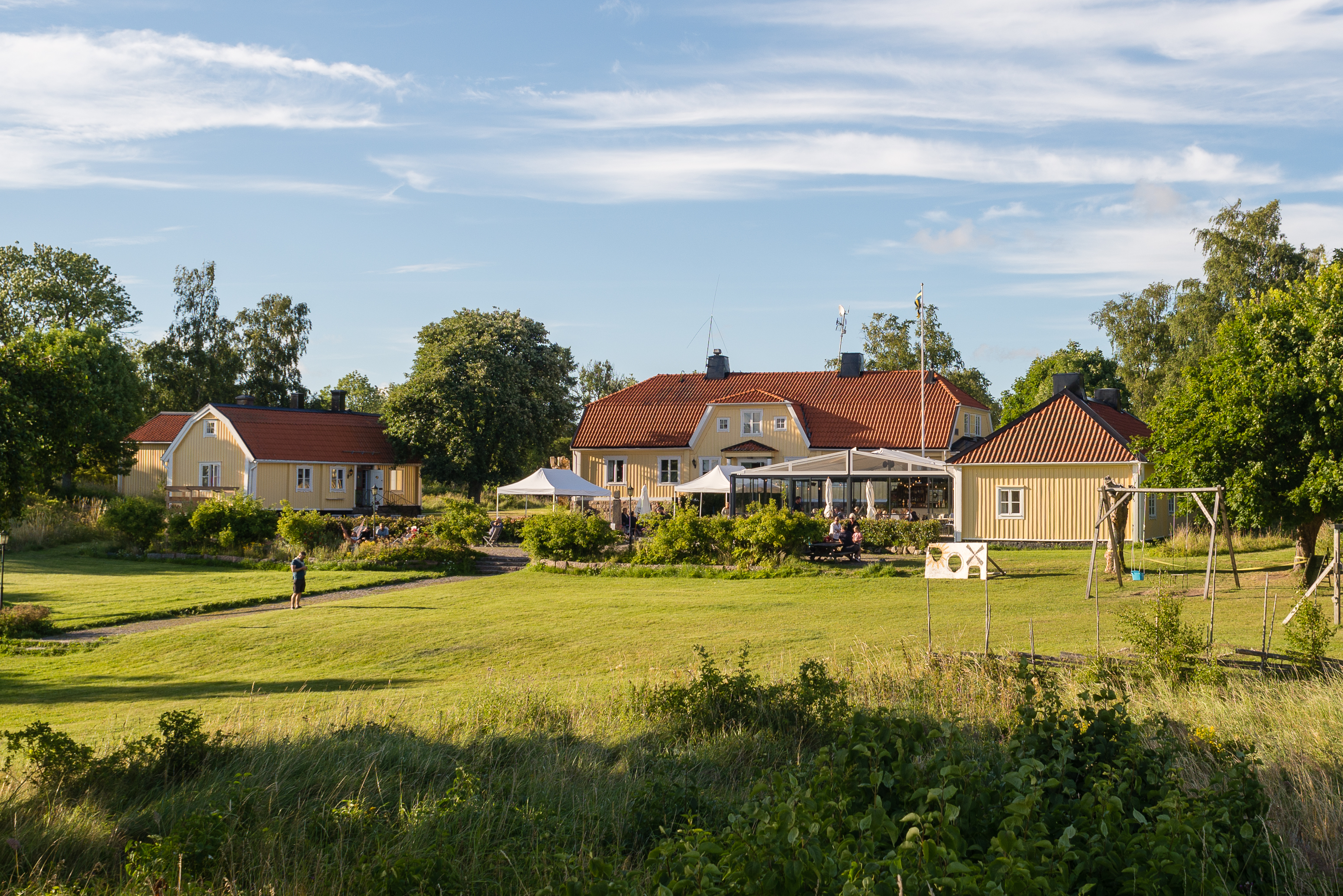 Lidö herrgård (manor) on the island Lidö in Stockholm archipelago.